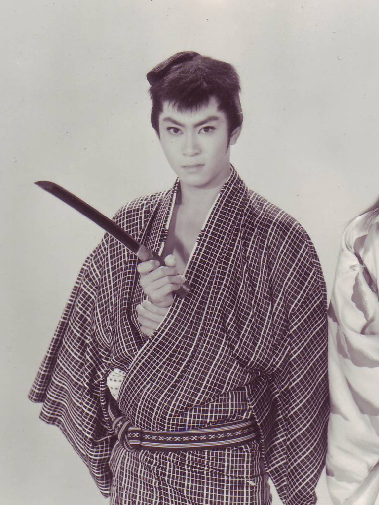 Kin'ya Kitaōji. Studio Still of the 1961 Japanese film "Wakagimi to JInanbo (Prince and the second son)" (Toei Company).